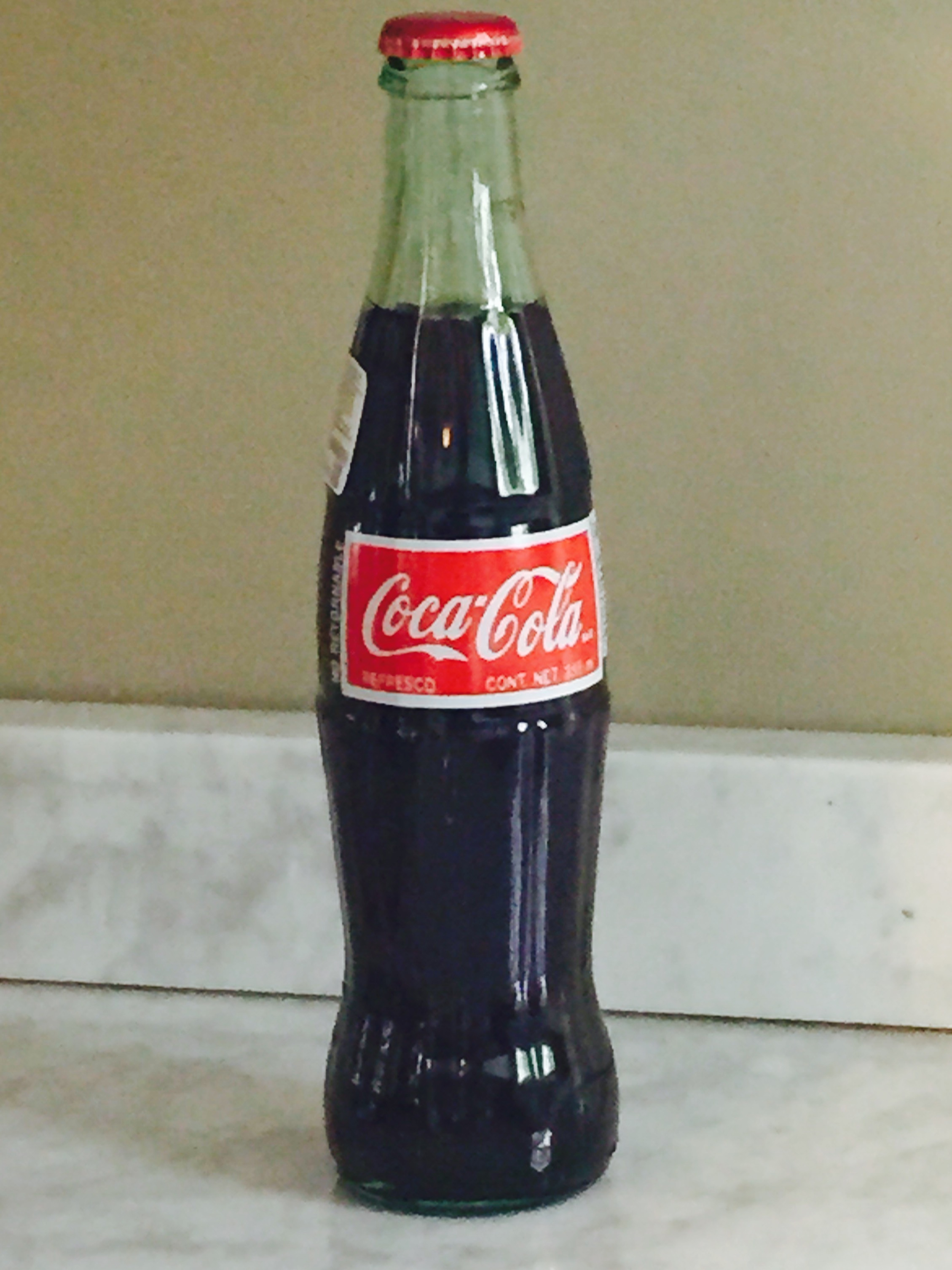 Mexican Coke.